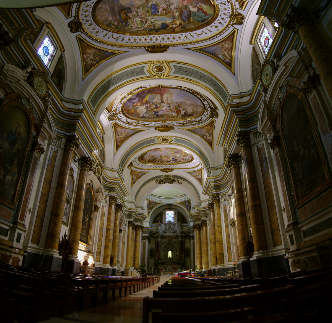 The interior of the dome of Lanciano, Chieti Province, Abruzzo